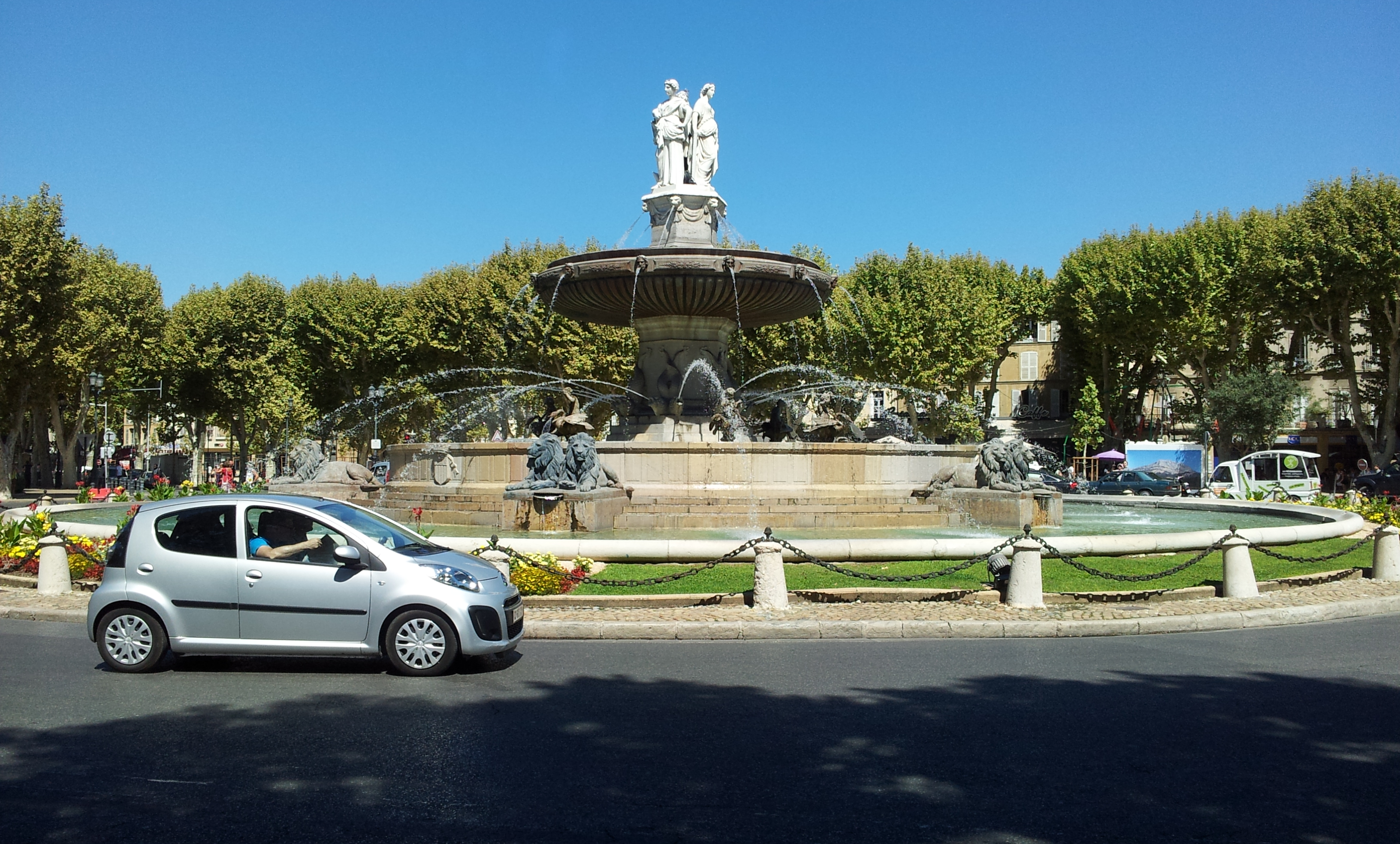 Un fontaine dans Aix